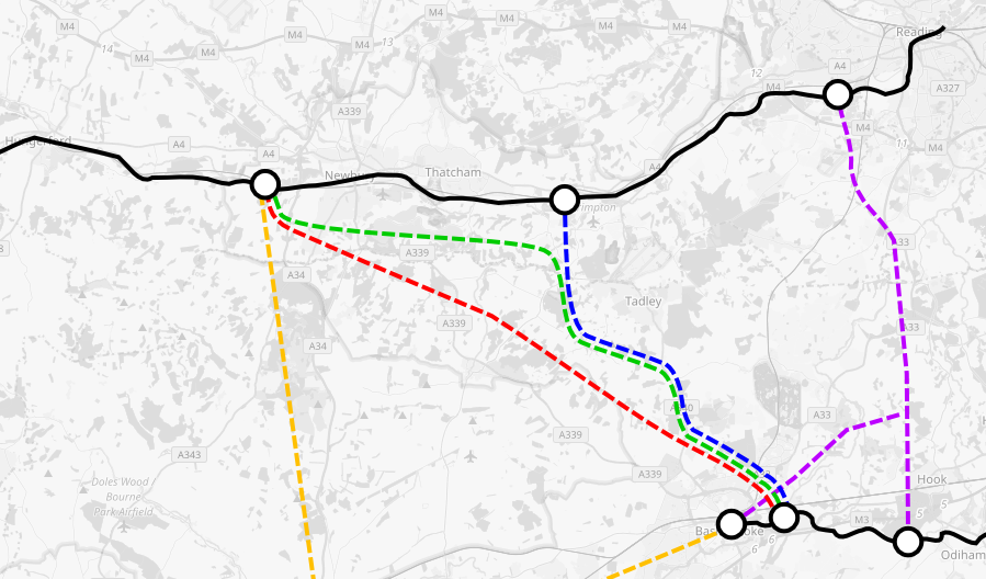 Map of proposed routes of the Berks and Hants Canal